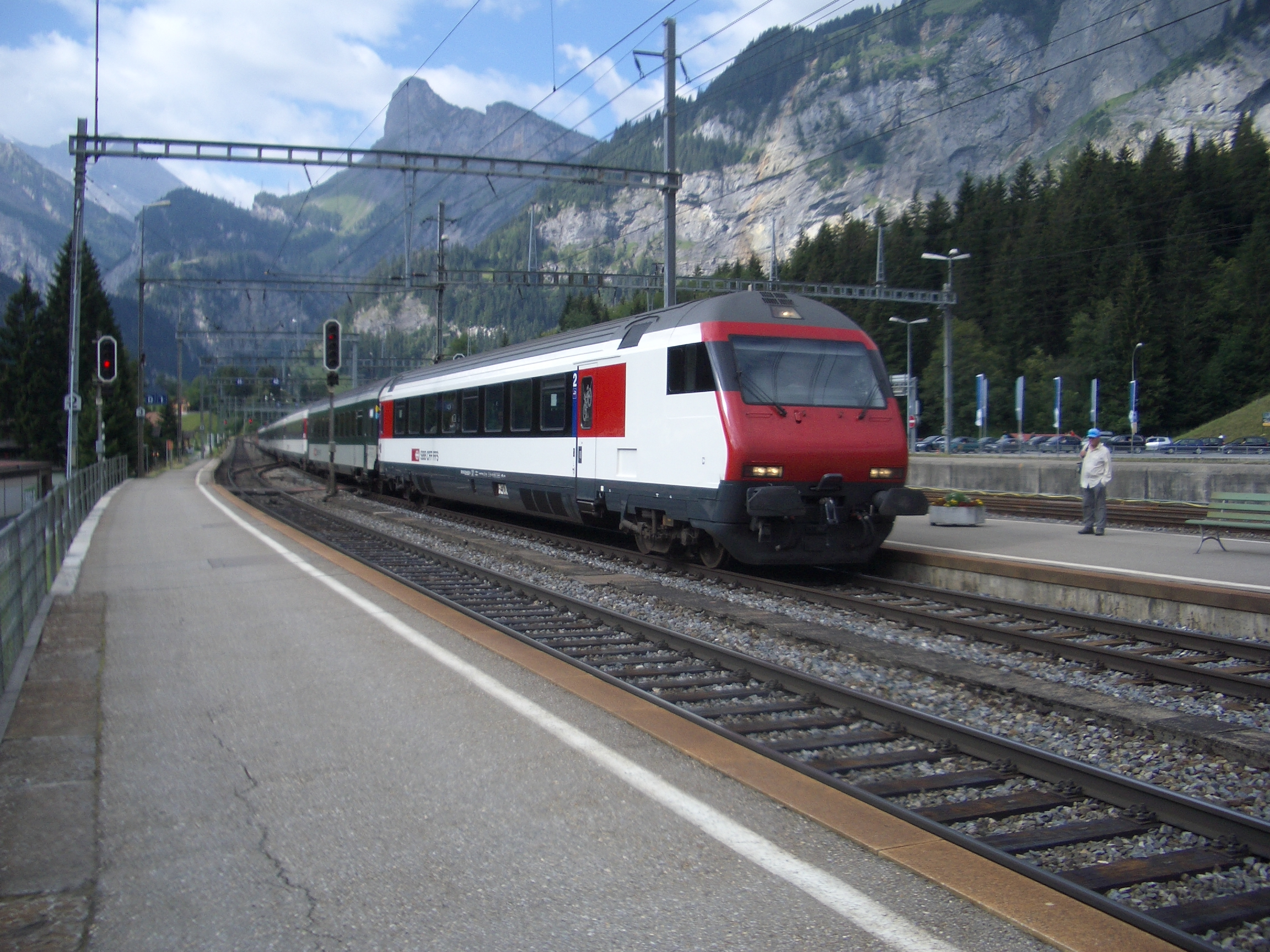 SBB train approaching Kandersteg on the BLS line